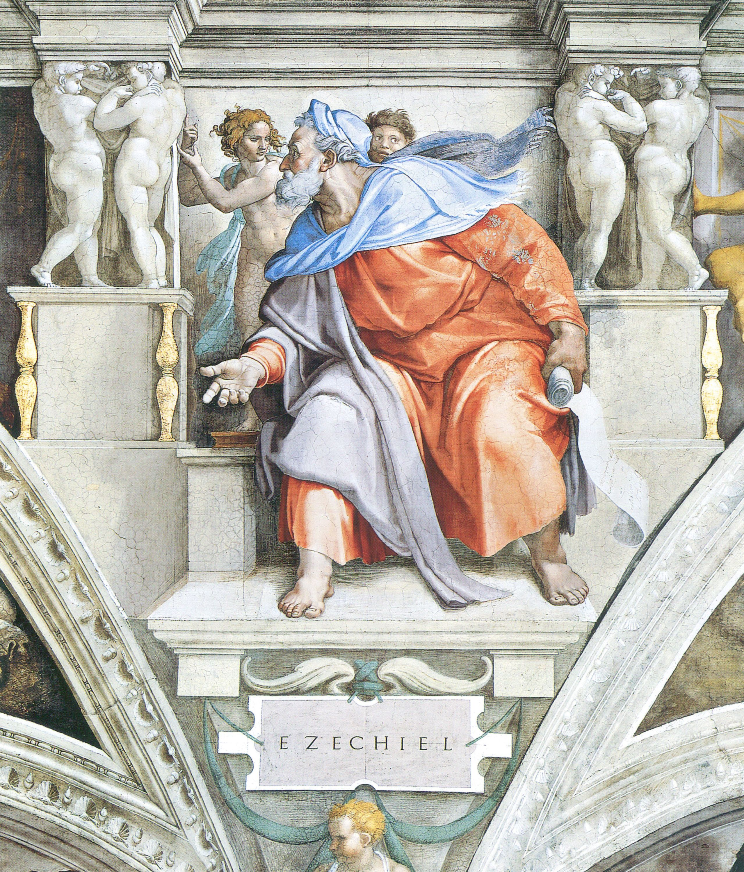 Ezekiel on the ceiling of the Sistine Chapel in the Vatican between 1508 to 1512, fresco, restored.